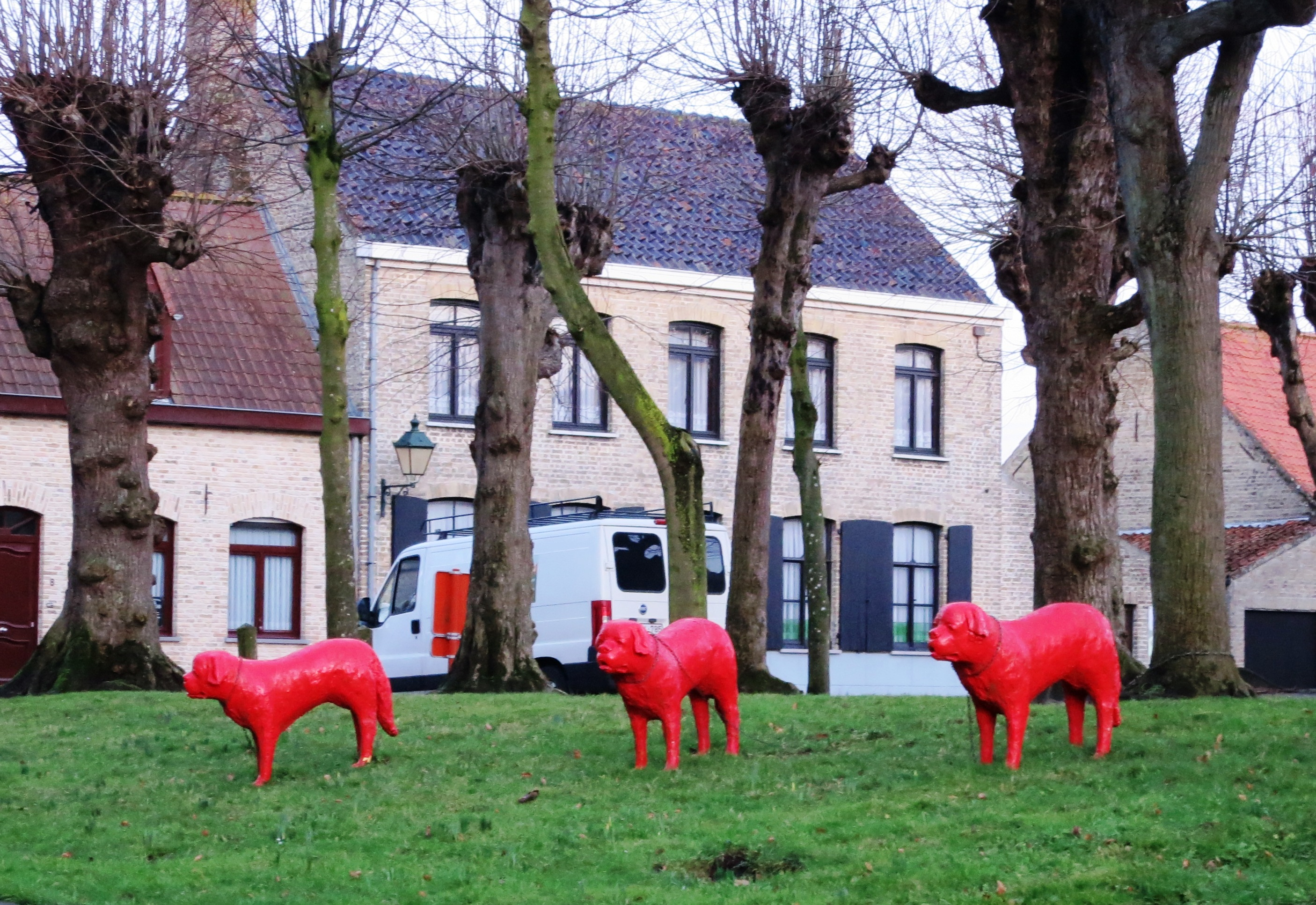 Dogs in Wulveringem (2015) thought to be red St Bernards